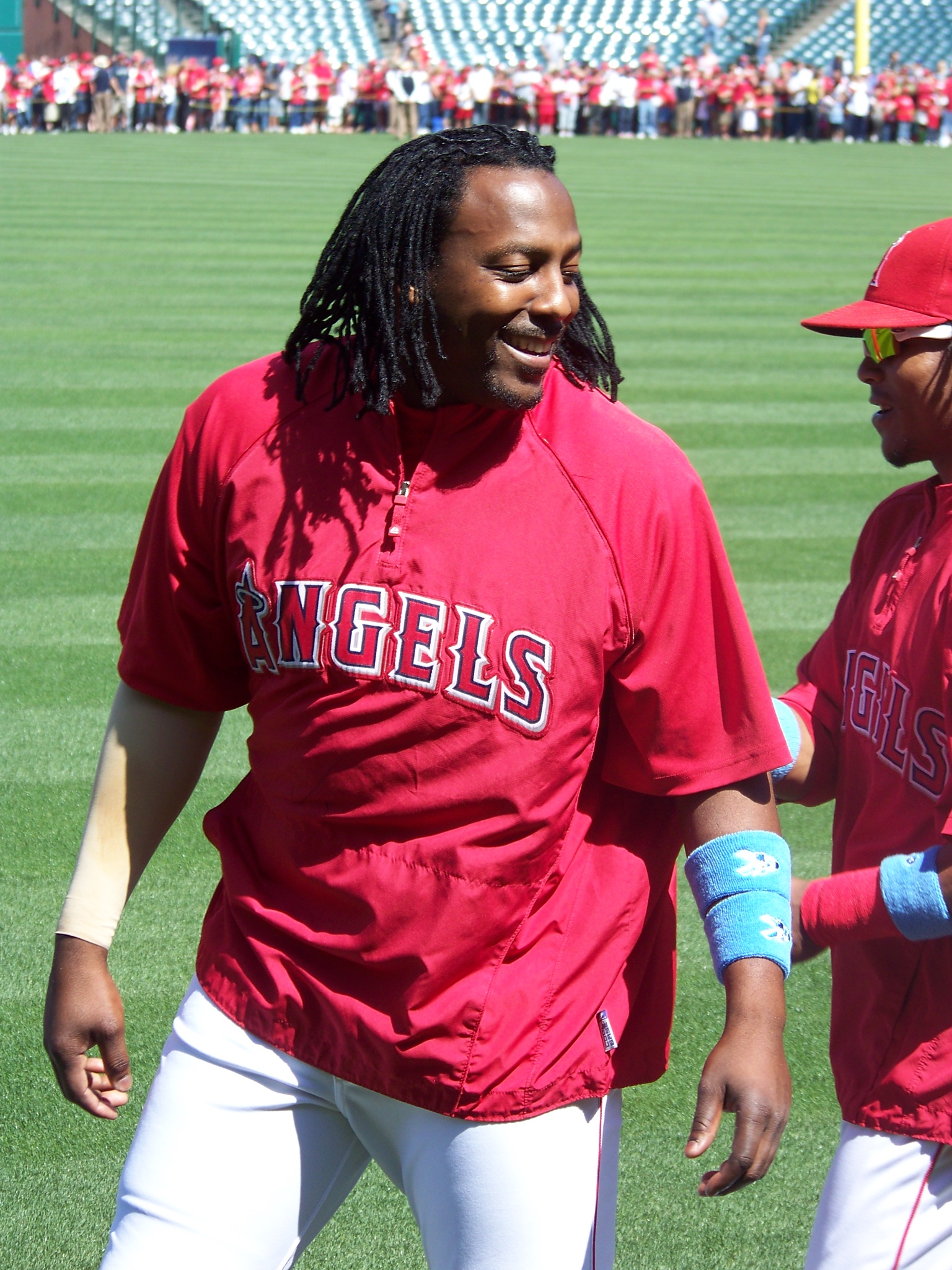 Vladimir Guerrero